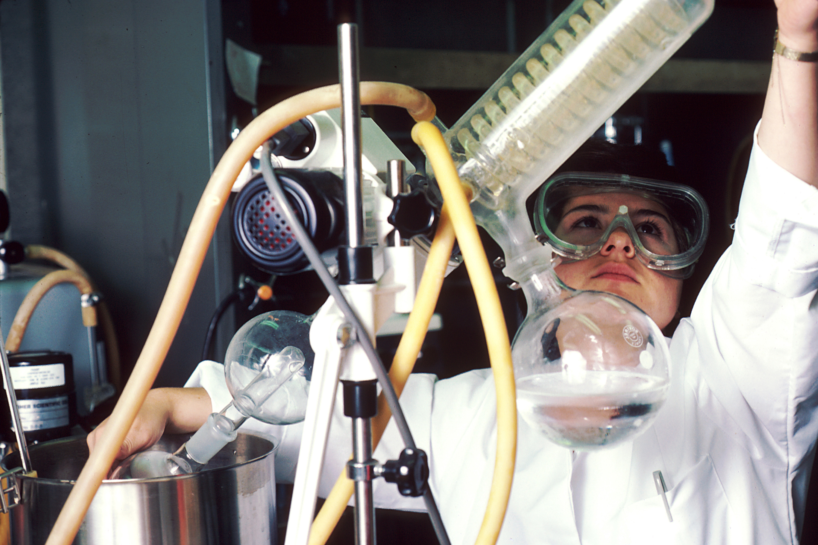 Title Drug Synthesis Description A Caucasian female scientist performing drug synthesis in a laboratory setting. She is wearing a white lab coat and wearing protective eye covering. She removing a solvent from a rotary evaporator to concentrate a chemical solution, while performing an experiment to synthesize an anticancer drug. Topics/Categories People -- Adult People -- Health Professional Science and Technology -- Laboratory Techniques/Equipment Type Color, Photo Source National Cancer Institute